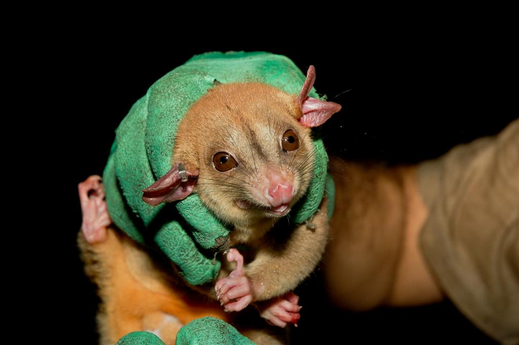 A Bare-tailed Woolly Opossum (Caluromys philander), an opossum from South America.